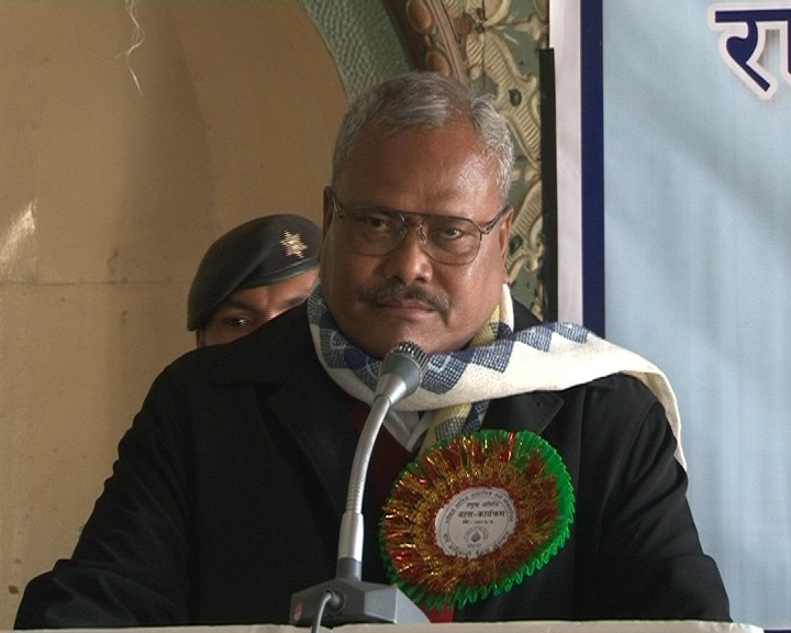 Nepali leader